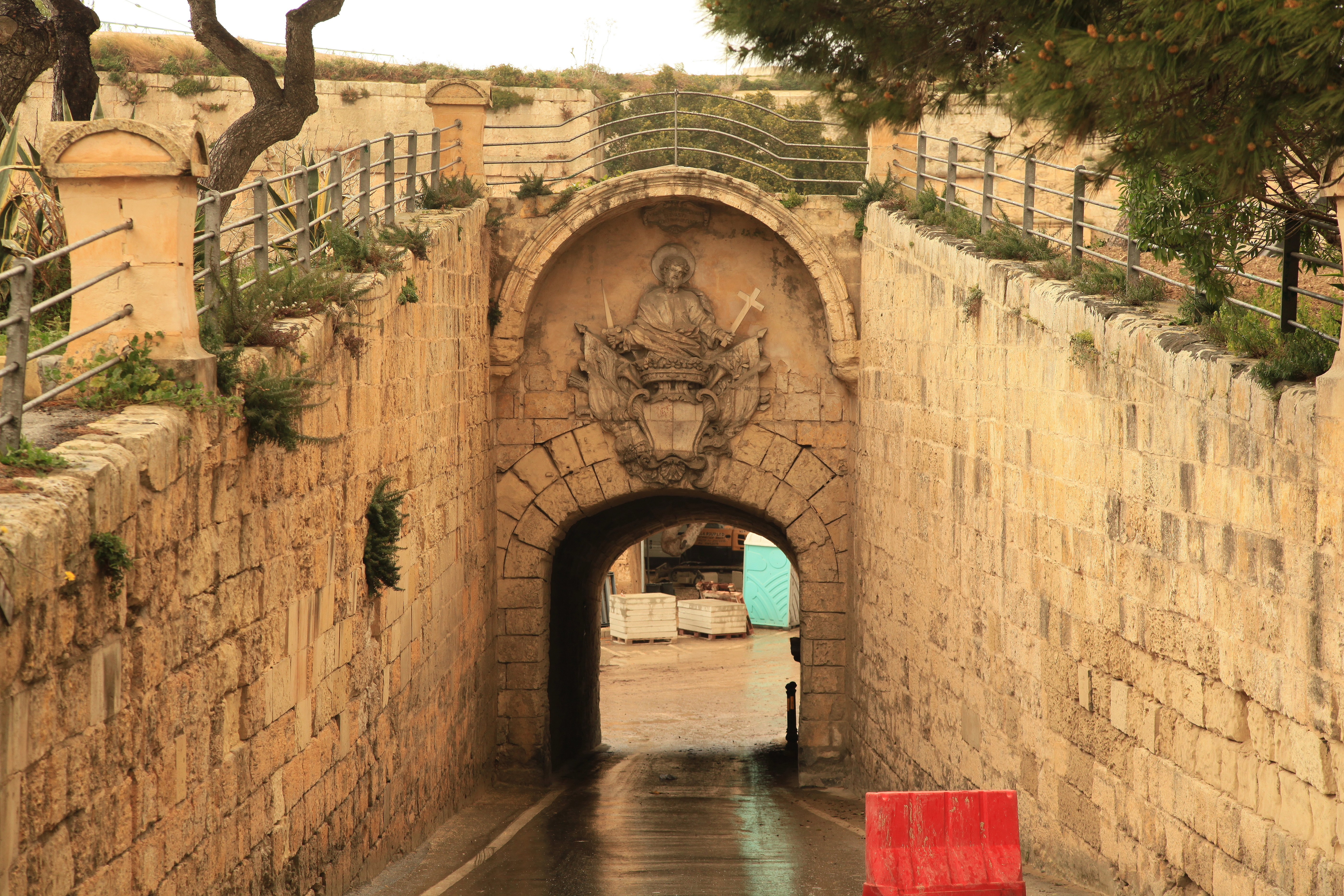 Outer Greek's Gate in Mdina, Malta